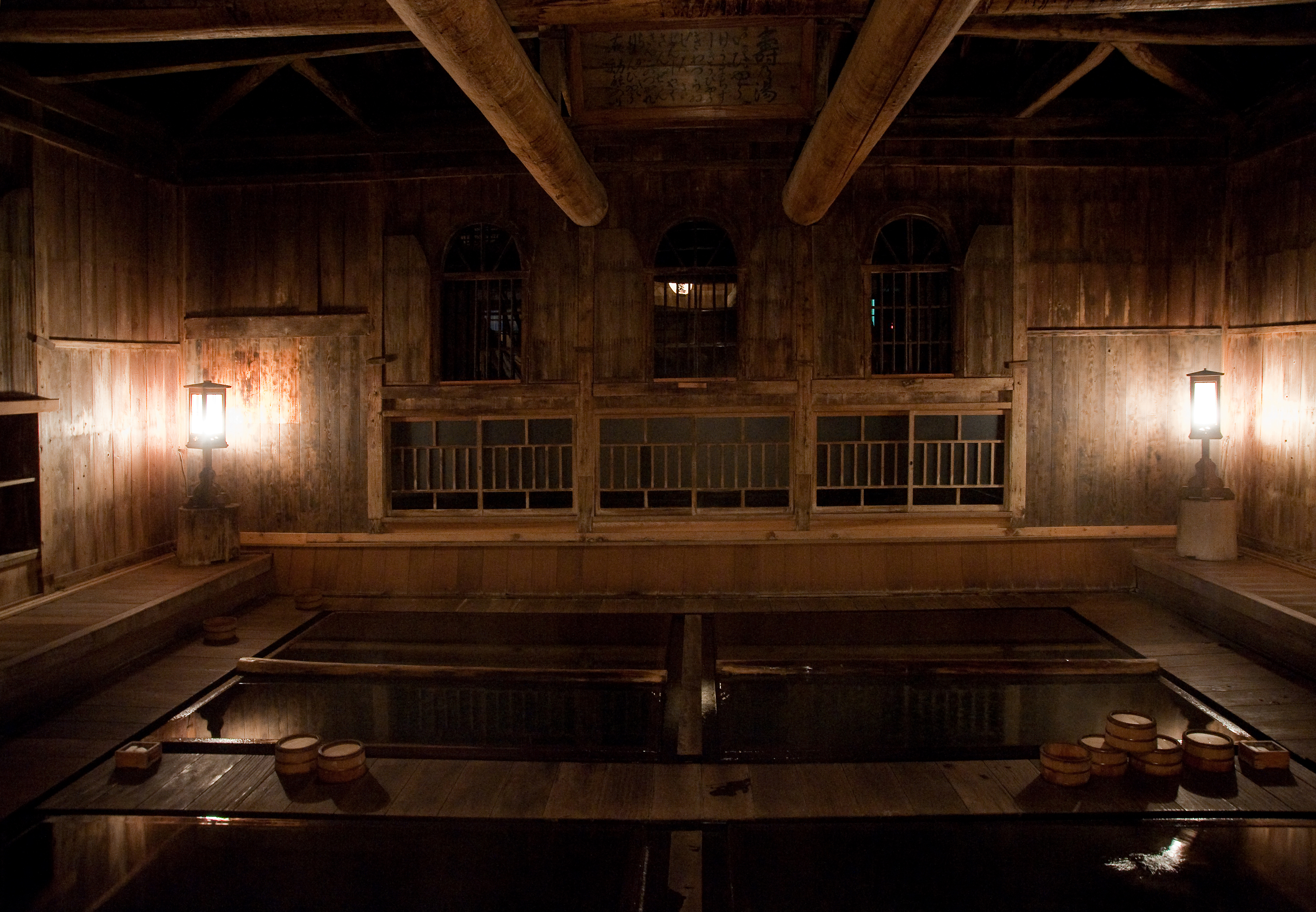 Hōshi Onsen